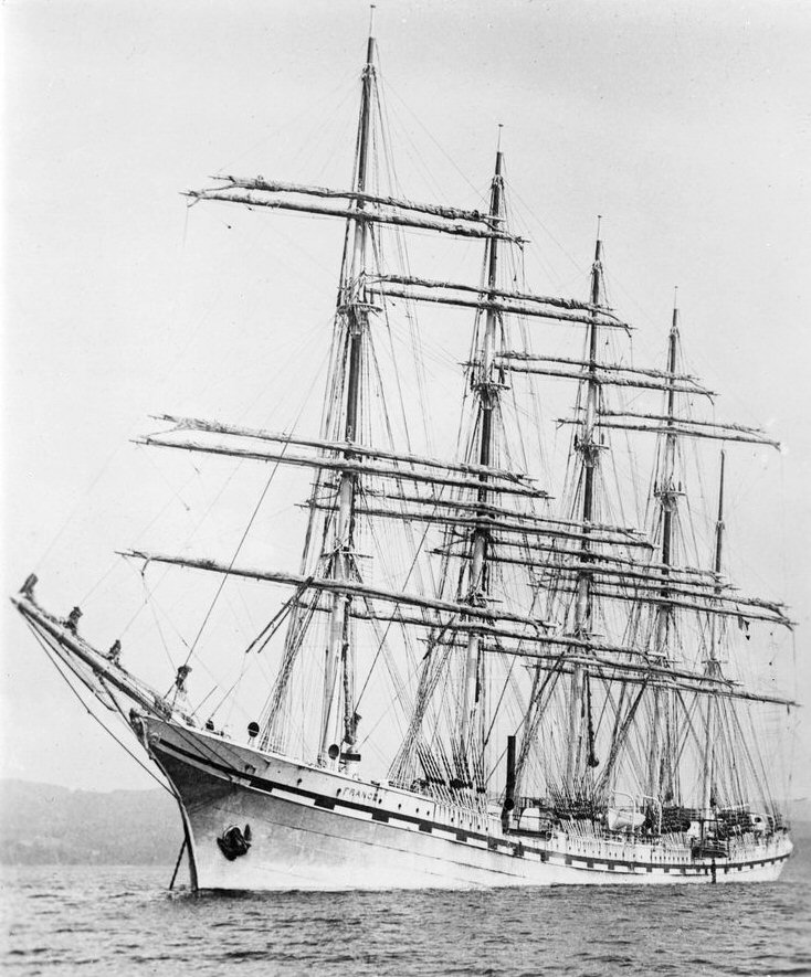 Barque France (II)